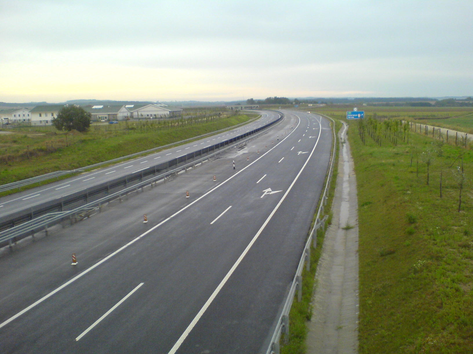 Motorway M7, near Eszteregnye, Hungary